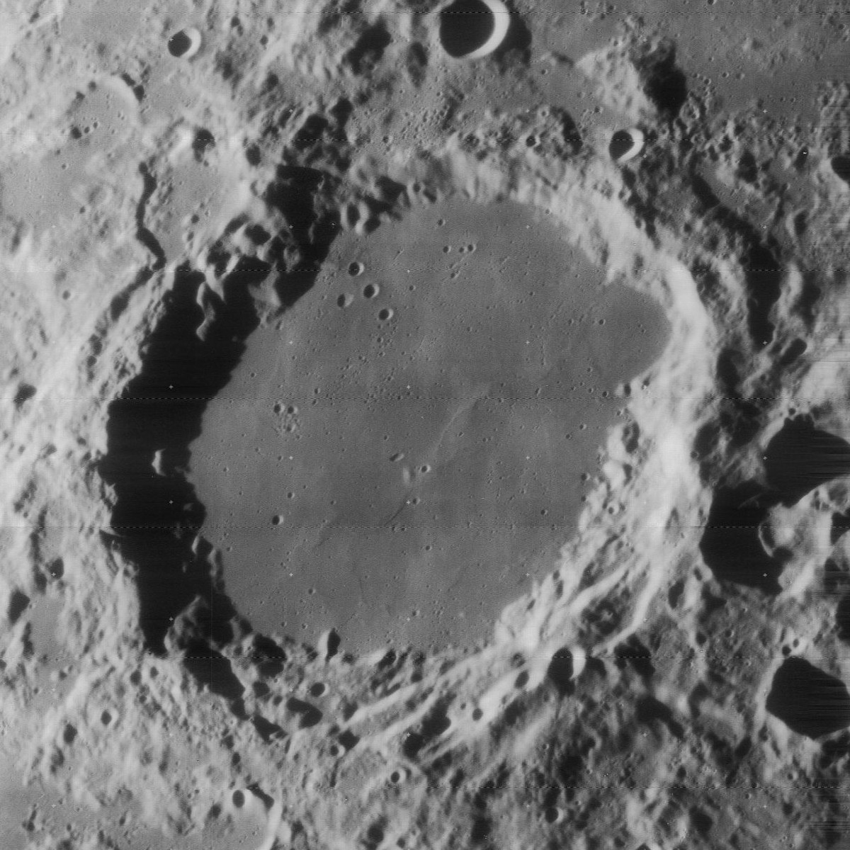 Oblique view of Endymion crater, facing north, on the moon.